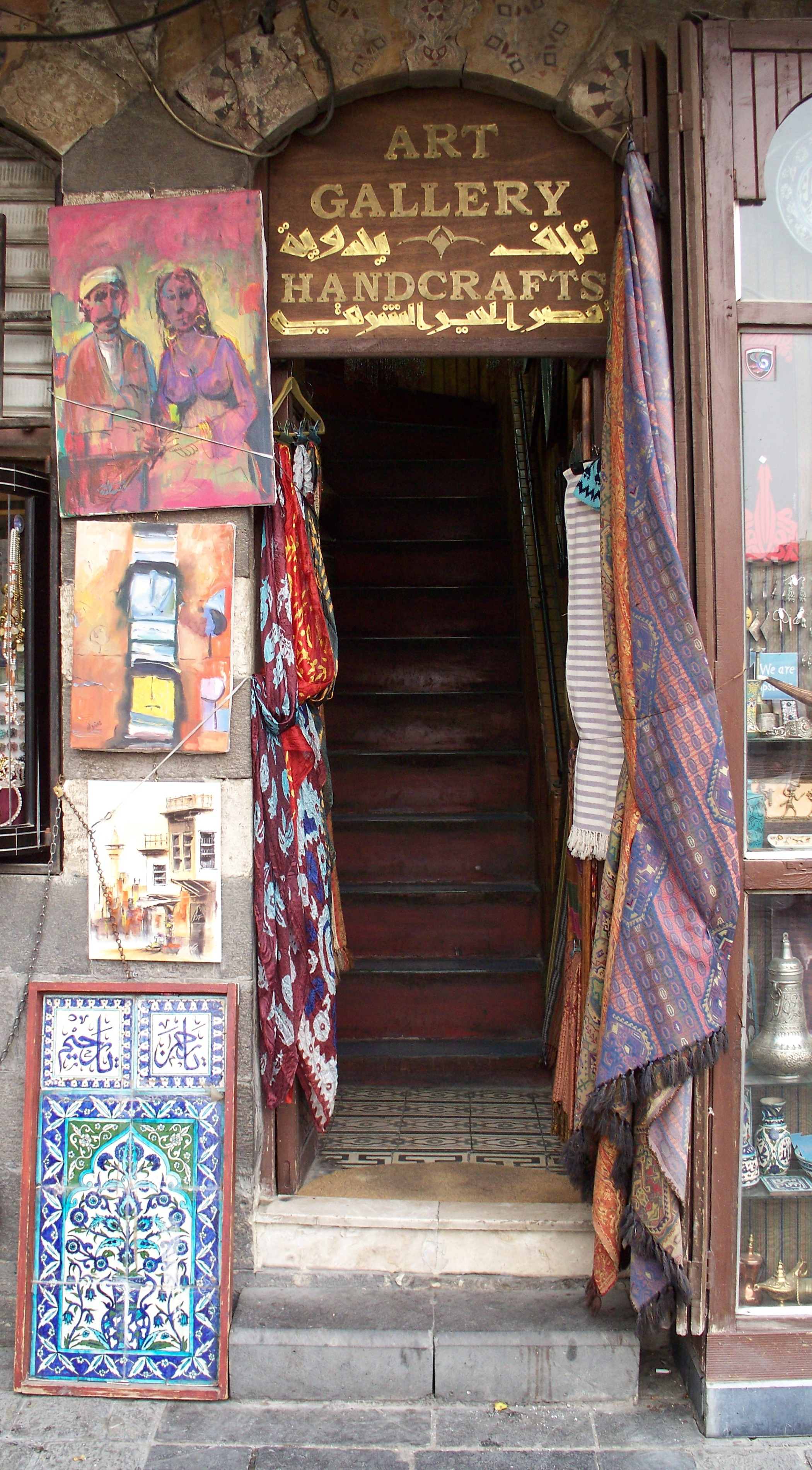 An art gallery in Damascus, Syria.